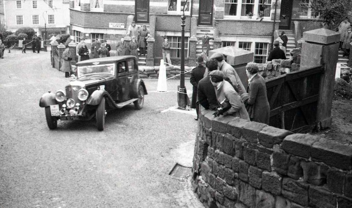 Bentley Speed Six (#KR2698) 6½-litre Victor Broom saloon 1929. Seen in action during the 1937 RAC Rally. The car still exists with its original body. Bentley 6½-litre saloon by Victor Broom delivered December 1929 Chassis KR2698 (short chassis) Engine SB2760 Speed Reg GJ 4329